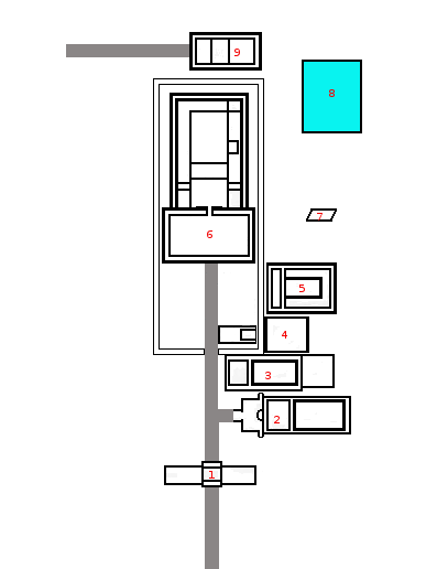 Plan of Dendera temple complex. [1] 1 North Gate 2 Roman Birth House (mammisi) 3 Chistian Church 4 Old Birth House (mammisi) 5 Sanitarium 6 Hathor Temple 7 Well 8 Sacred Lake 9 Isis Birth House